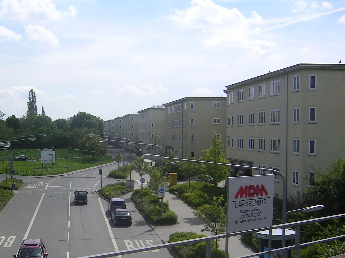 Heimatsiedlung at the Stresemannallee in Frankfurt-Sachsenhausen